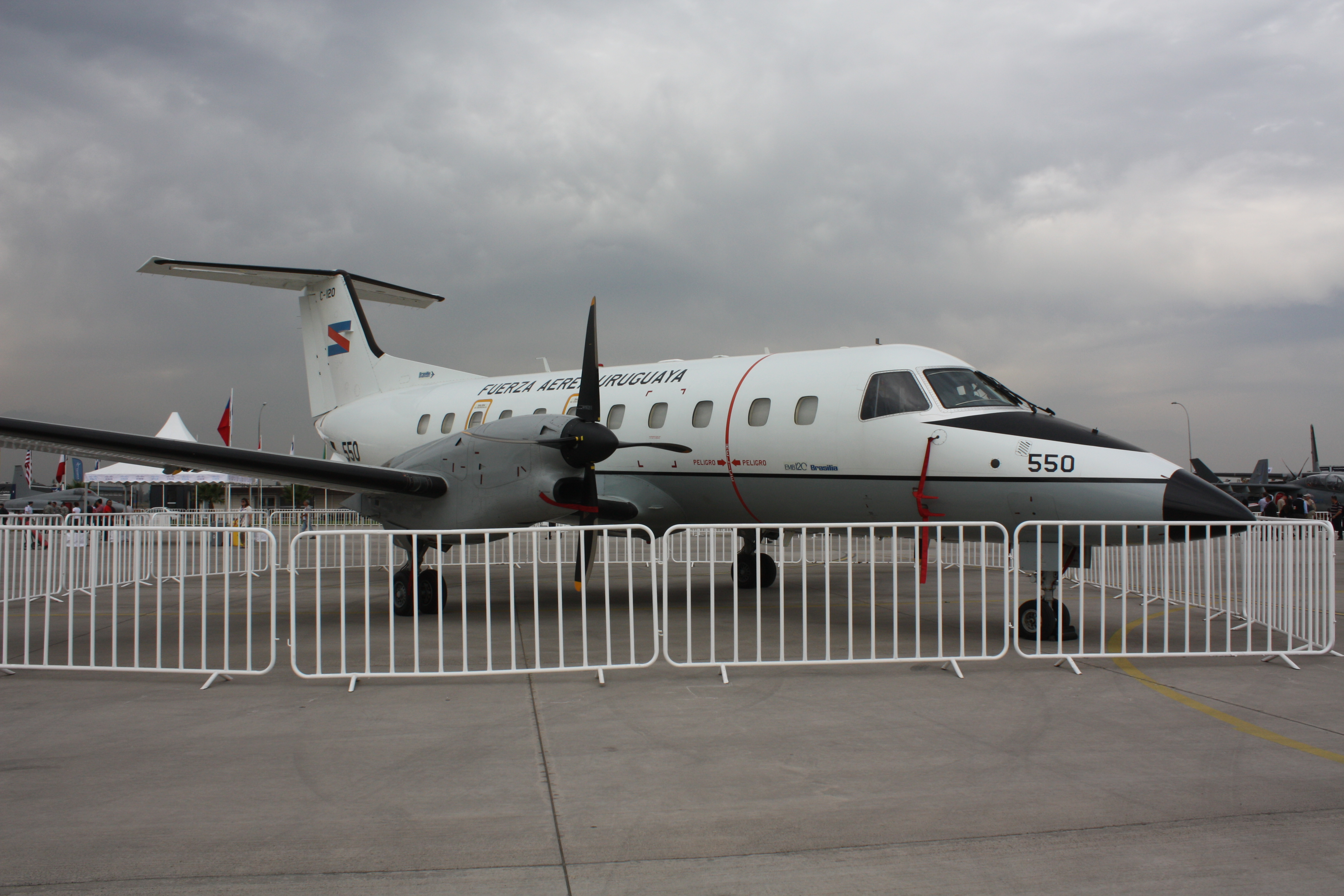 Uruguayan Air Force EMB-120 at Fidae 2016